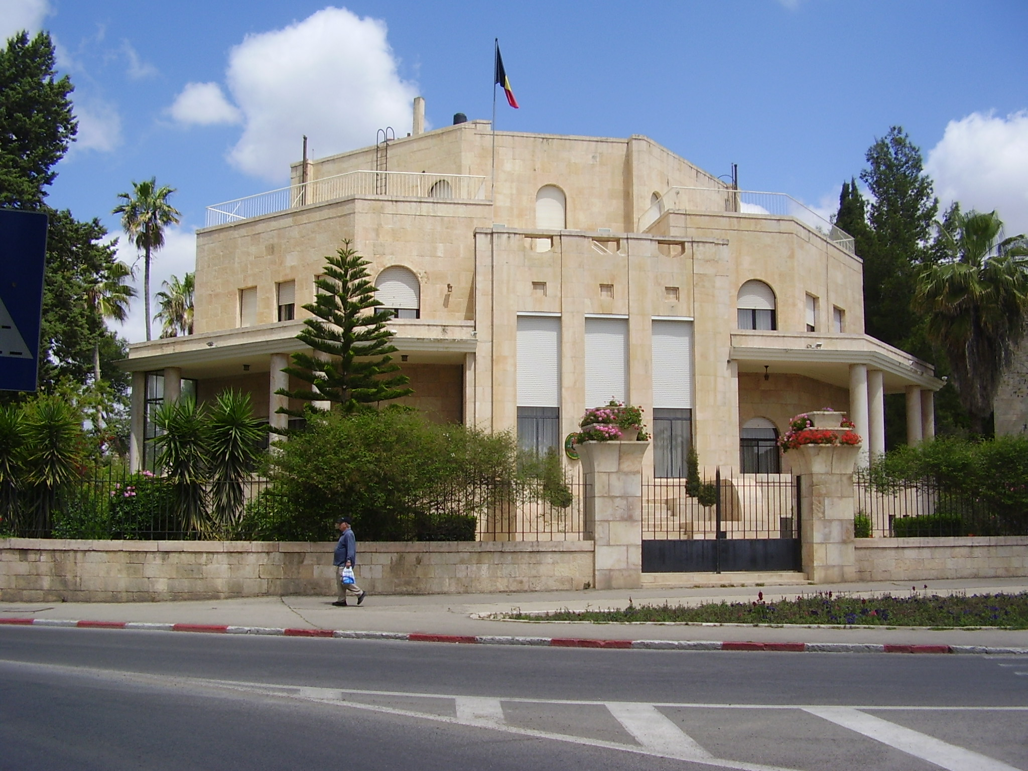 Villa Salameh Jerusalem